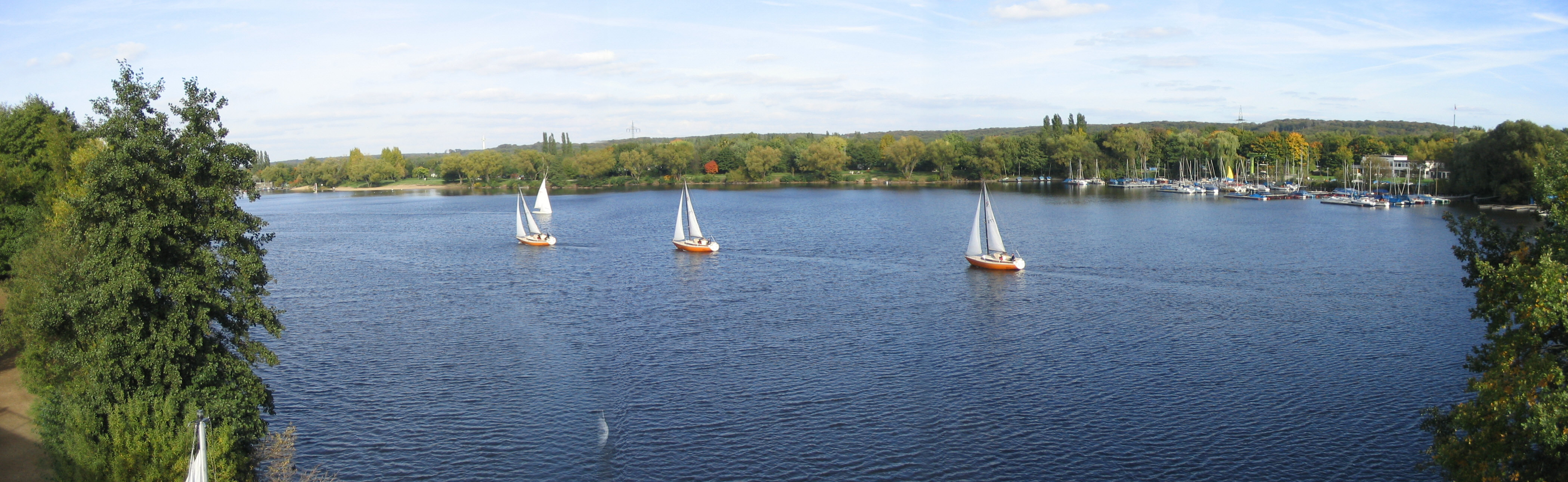 Masurensee in Duisburg.